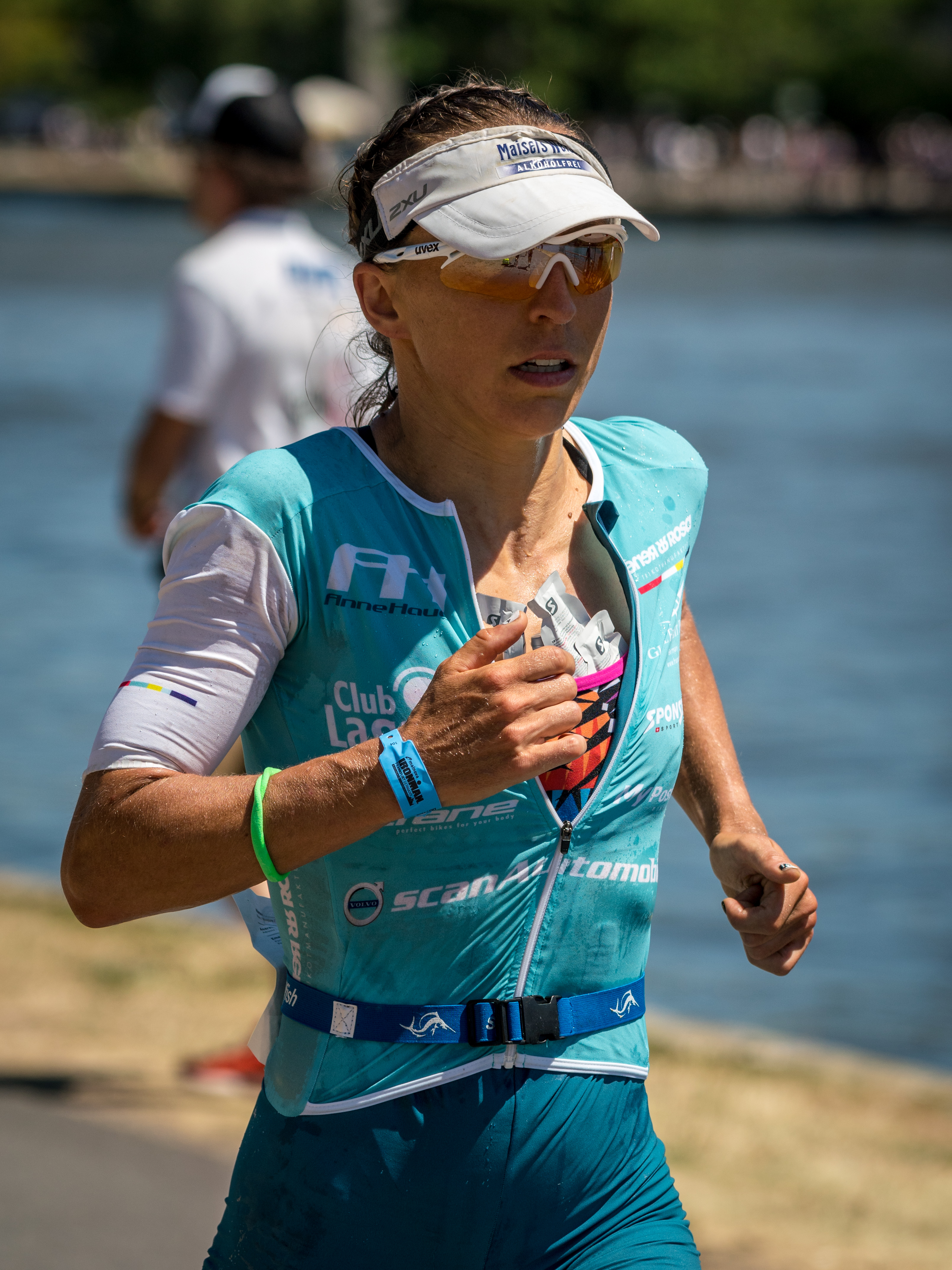 Fourth female Anne Haug at the 2018 Ironman European Championship in Frankfurt am Main (Germany).